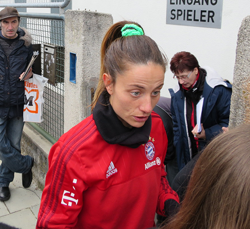 Raffaella Manieri, February 2016